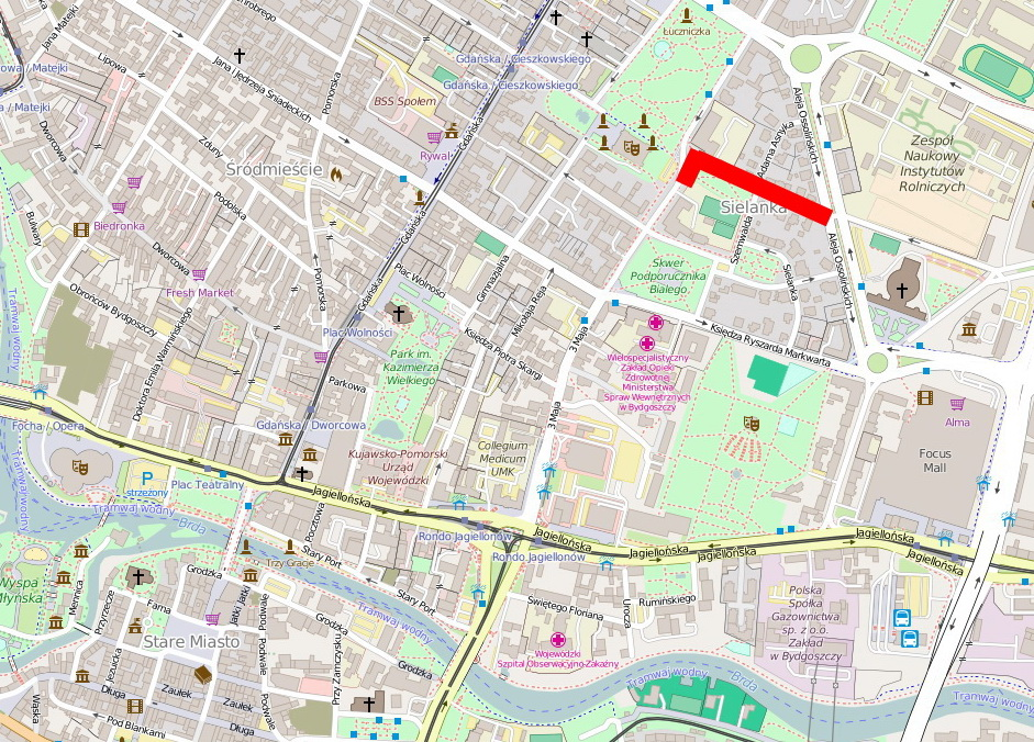 Map with street